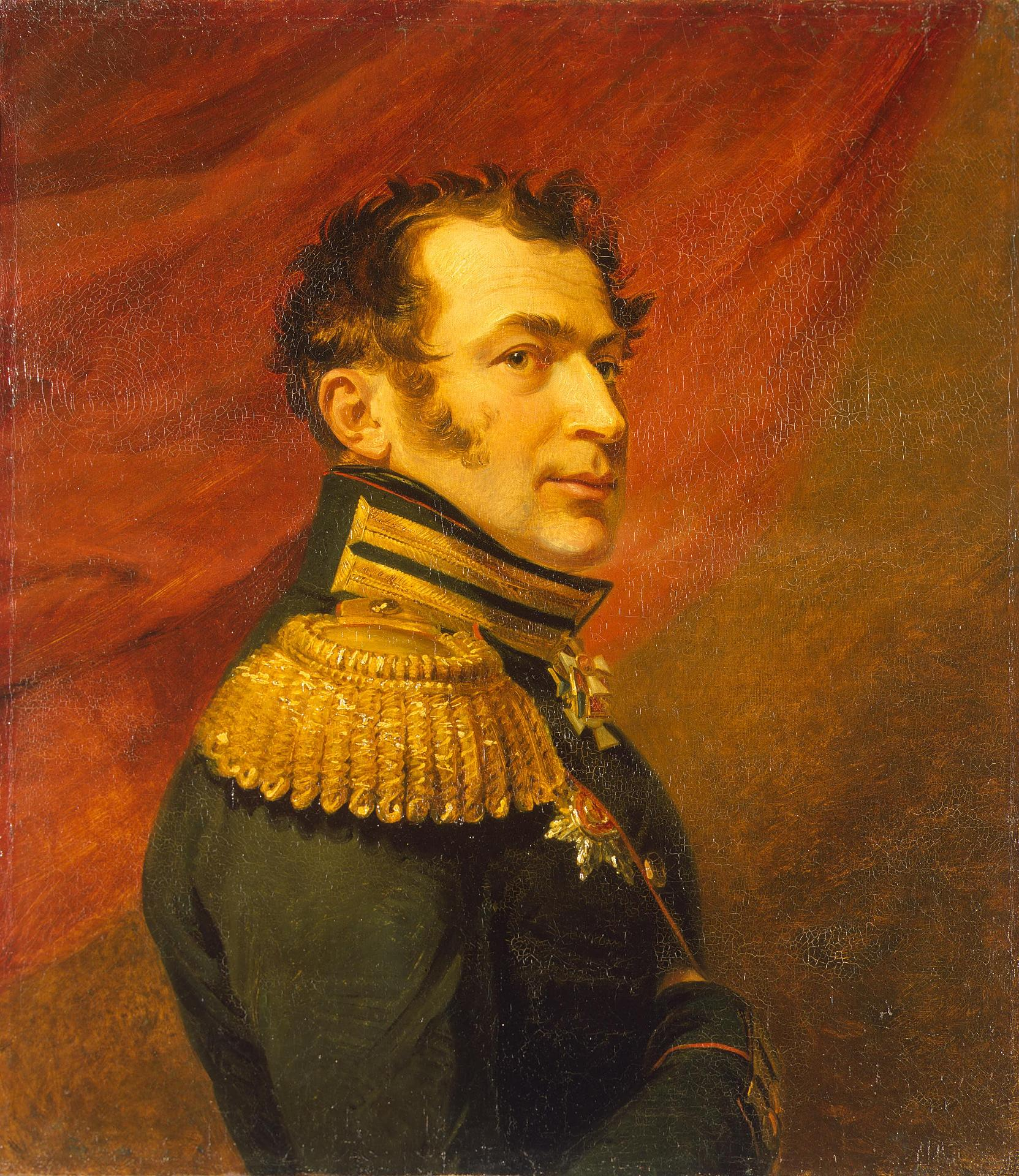 Vasily Nikanorovich Shenshin (17.04.1784 – 16.05.1831) Russian general.